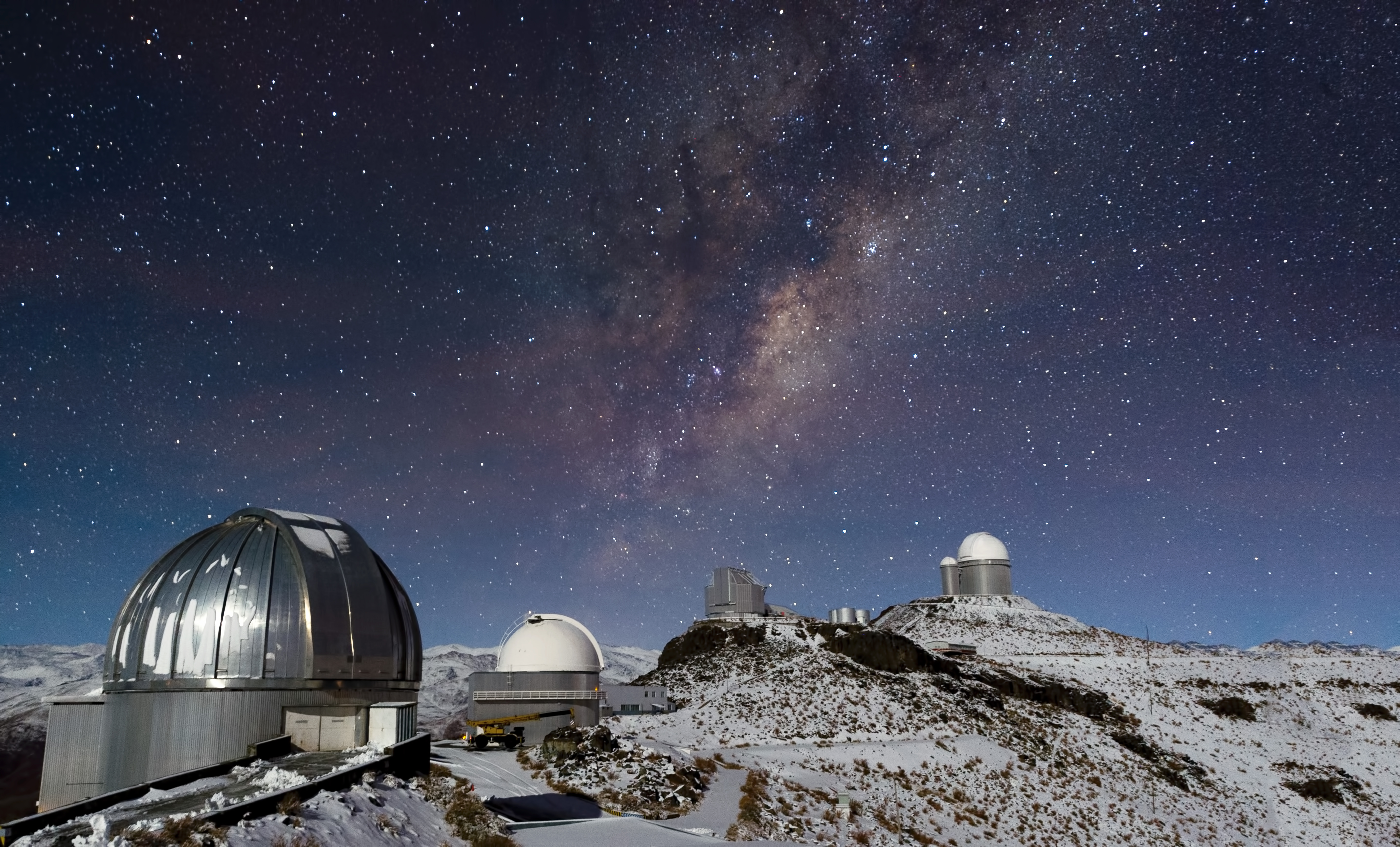 In the outskirts of the Atacama Desert, far from the light-polluted cities of northern Chile, the skies are pitch-black after sunset. Such dark skies allow some of the best astronomical observing to take place — and at an altitude of 2400 metres, ESO’s La Silla Observatory has an incredibly clear view of the night sky. However, even such a remote, high, and dry location cannot always escape the weather that sometimes comes with the winter months, when blankets of snow can cover the mountain peak and its telescope domes. This image shows a wintry La Silla sitting beneath a spray of stars from our Milky Way, the plane of which slants across the frame. Visible (from right to left) are the ESO 3.6-metre telescope, the 3.58-metre New Technology Telescope (NTT), the ESO 1-metre Schmidt telescope, and the MPG/ESO 2.2-metre telescope, which has snow on its dome. The small dome of the decommissioned Coudé Auxiliary Telescope can be seen adjacent to that of the ESO 3.6-metre telescope, and between it and the NTT are the water tanks of the observatory. While the sight of snow at La Silla may initially be surprising, the high altitude ESO sites can experience both hot and cold temperatures through the year, and occasionally be subject to harsh conditions. This photograph was taken by José Francisco Salgado, an ESO Photo Ambassador.